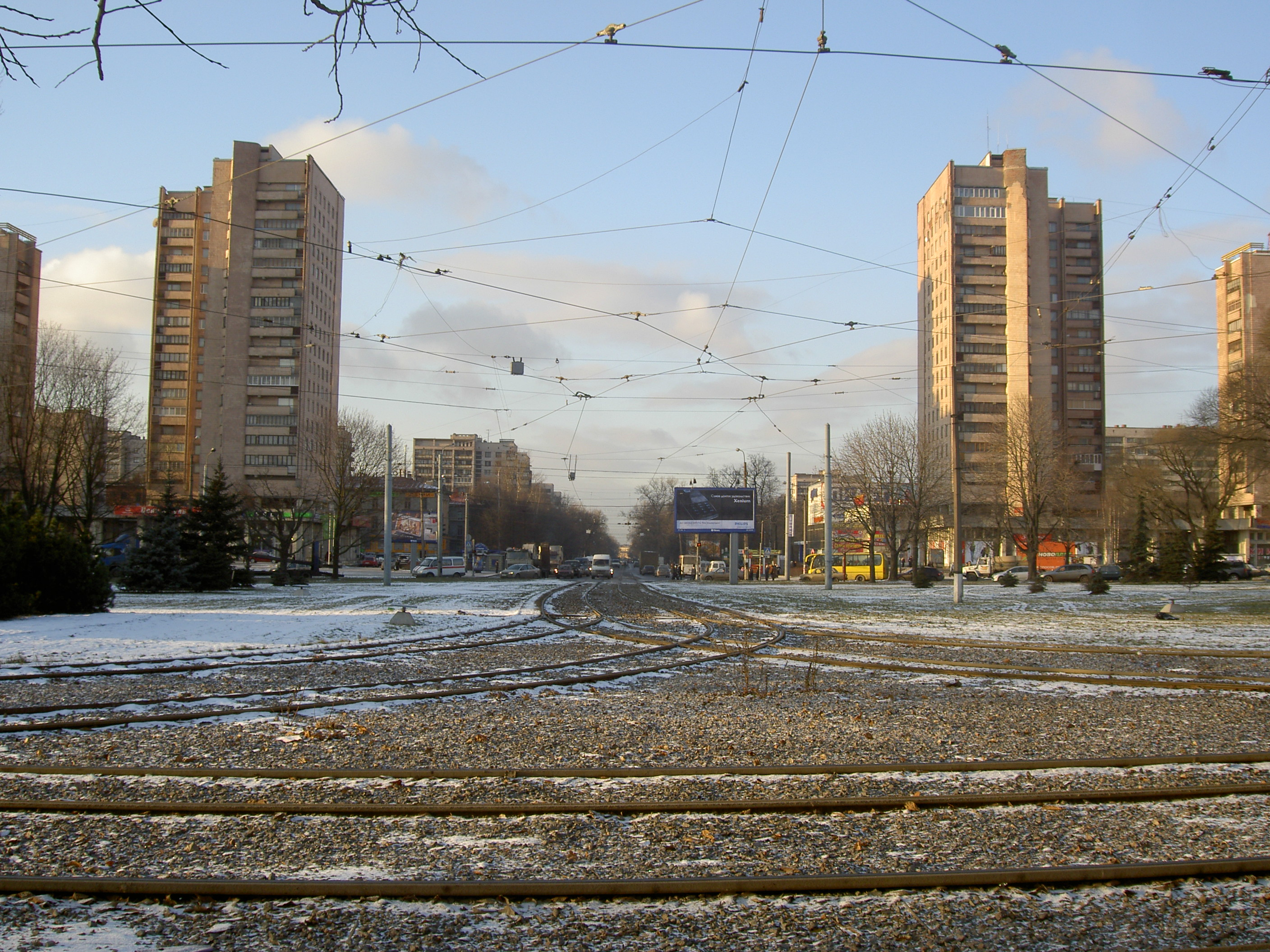 Tram switch at Muzhestva square in Saint Petersburg